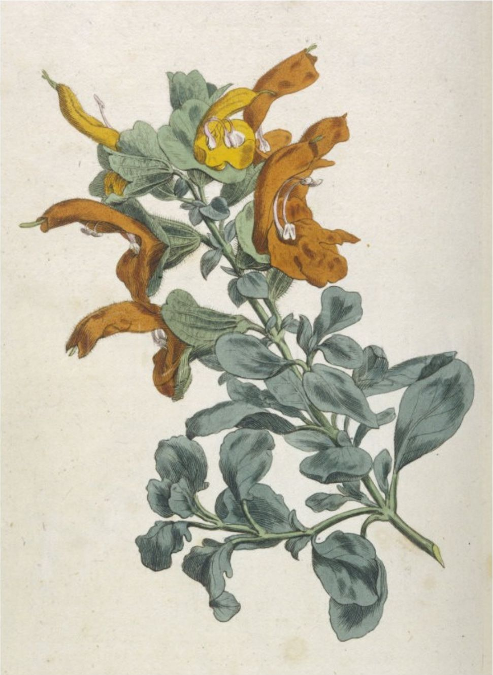 Salvia aurea L.from Curtis' Botanical Magazine